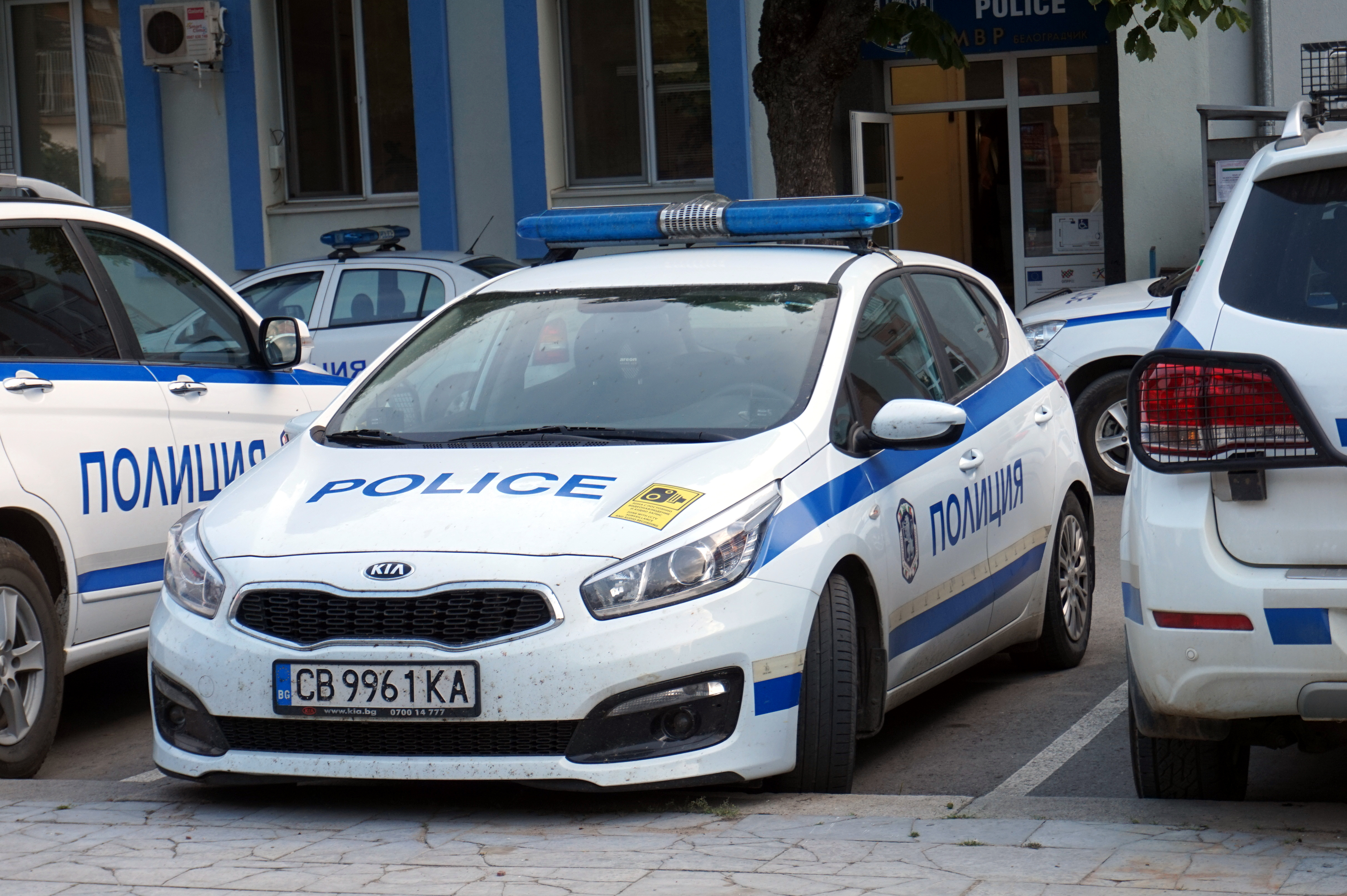 Kia Ceed of the Bulgarian Police